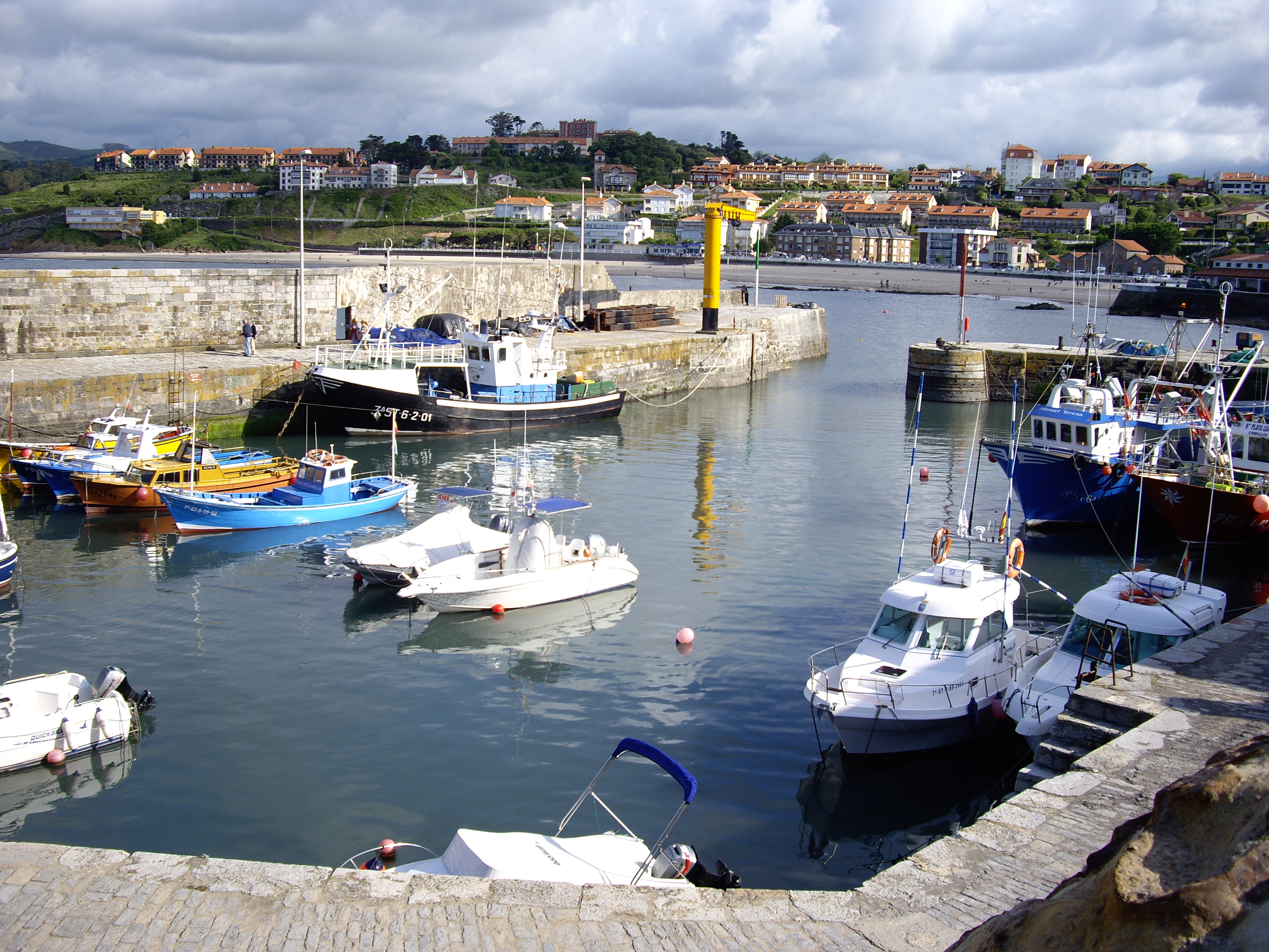 Port in Comillas (Cantabria, Spain)